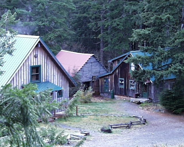 Jawbone Flats, Oregon. Cabins at Opal Creek Ancient Forest Center, Marion County, Oregon, USA